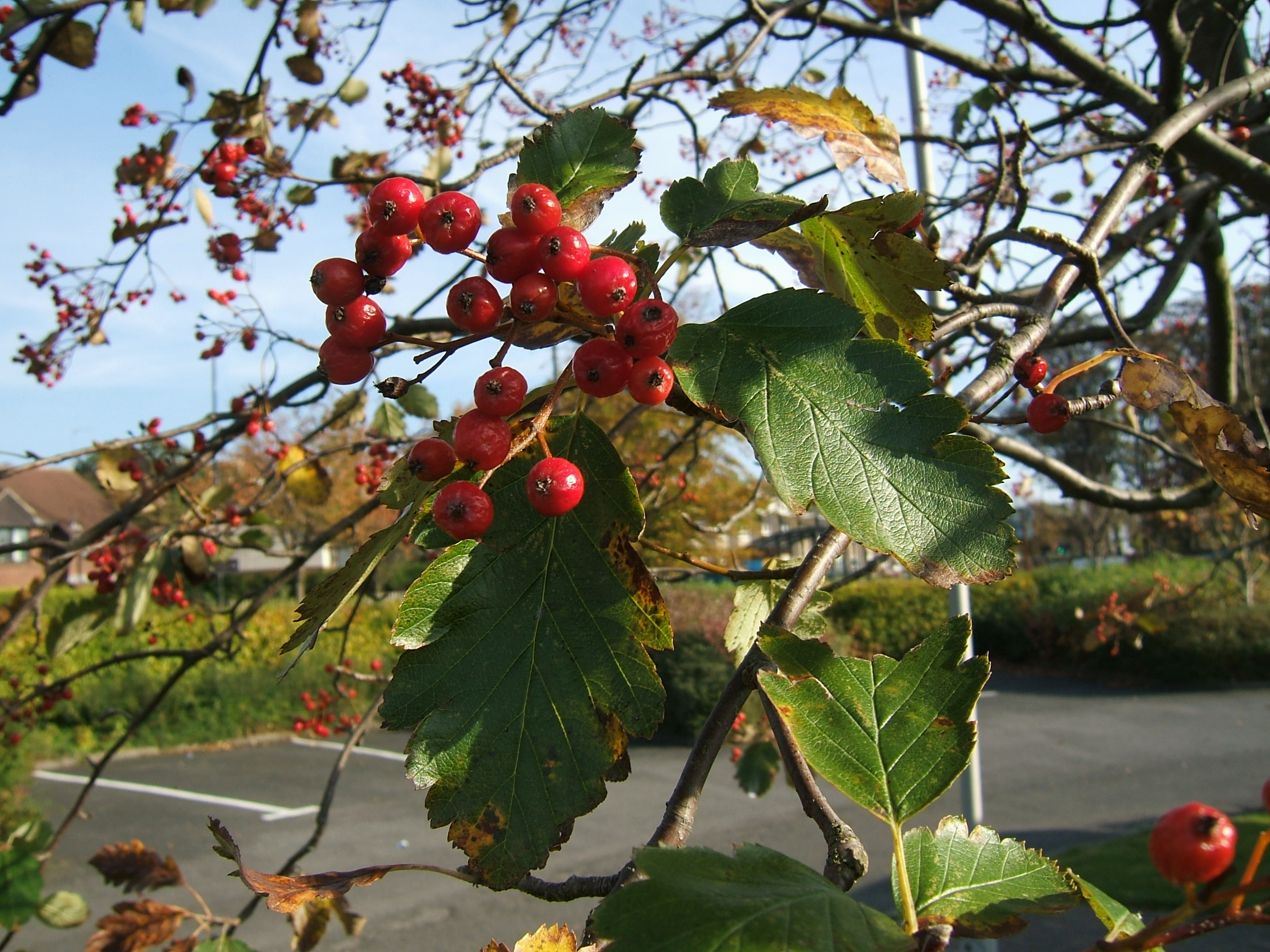 Sorbus intermedia with fruit, cultivated, Newcastle, Northumberland, UK